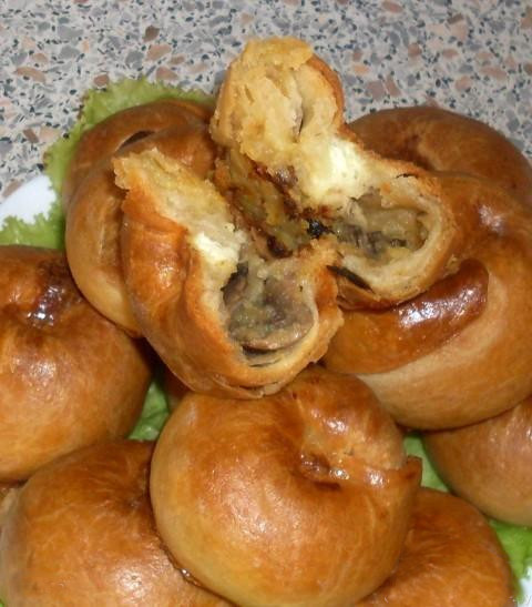 Knishes (knyshes) stuffed with mashed potatoes and fried onions